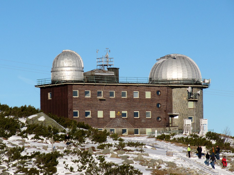 Skalnaté pleso observatory